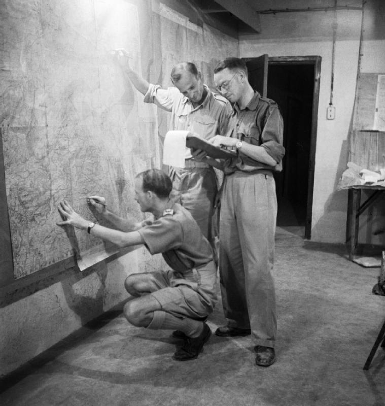 Staff officers plotting troop positions during the invasion of Sicily on a wall map in the underground operations room at Malta, 9 July 1943. Operation Husky: The Sicily Landings 9 - 10 July 1943: Scene in the underground Operations Room at Malta which co-ordinated Operation Husky. Three British staff officers plot positions on large wall charts. The Operations Room was located in one of the caves on Malta as an air raid precaution.